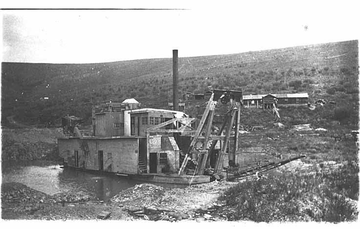 On verso of image: Fairbanks Gold Mg. Co., Meehan, Alaska, 7 & 8 above Discovery, 26 miles NE of Fairbanks. Fred K. Powell, 1914. 3-1/2 ft. Risdon Dredge. 14-30 ft. of ground, worked before. Original depth, 14'-18' PH Coll 334.Powell 5 Subjects (LCTGM): Dredges--Alaska; Gold dredging--Alaska; Gold mining--Alaska Subjects (LCSH): Fairbanks Gold Mining Company; Gold mines and mining--Alaska